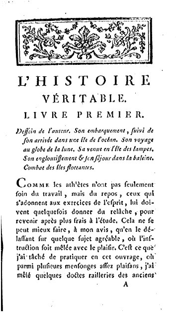 First page of Lucian of Samosata's "True Story", French translation and continuation by Nicolas Perrot d'Ablancourt, in a 1787 edition published in Amsterdam (regrouped with Cyrano de Bergerac's "Histoire comique des Etats et Empires de la Lune").